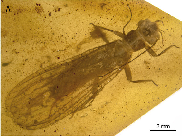 Largusoperla brianjonesi, holotype SMNS BU-311, photographs. (A) Dorsal view.